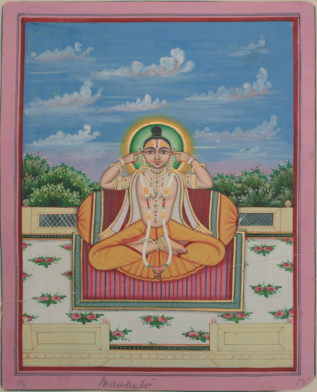 From a series of Vishnu Avataras: Yagya. Jaipur, circa 1860. Opaque watercolour with gold on used ledger paper. 24.1 x 19.2cm This avatara is belongs to the classifications extending beyond the Dasavataras of 10. The Contemporary English inscriptions front and back must be the original owner's interpretation of Manvantara. Millions of years ago during the time of Svayambhuva Manvantara, Indra (king of the gods) was absent so Vishnu took the form of Yajna to hold his post. Yajna is shown using a mudra (hand gesture) which blocks the sense of hearing similar to yoni mudra which blocks all five senses. Ledger sheets were commonly recycled to use for painting at the time due to the high cost of wasli, the hand made paper specifically for paintings. Used ledger paper was pasted together in the same manner as the rag-paper pasted together to form wasli. My thanks to the kindness of Tarum Pant for identifying this avatara.